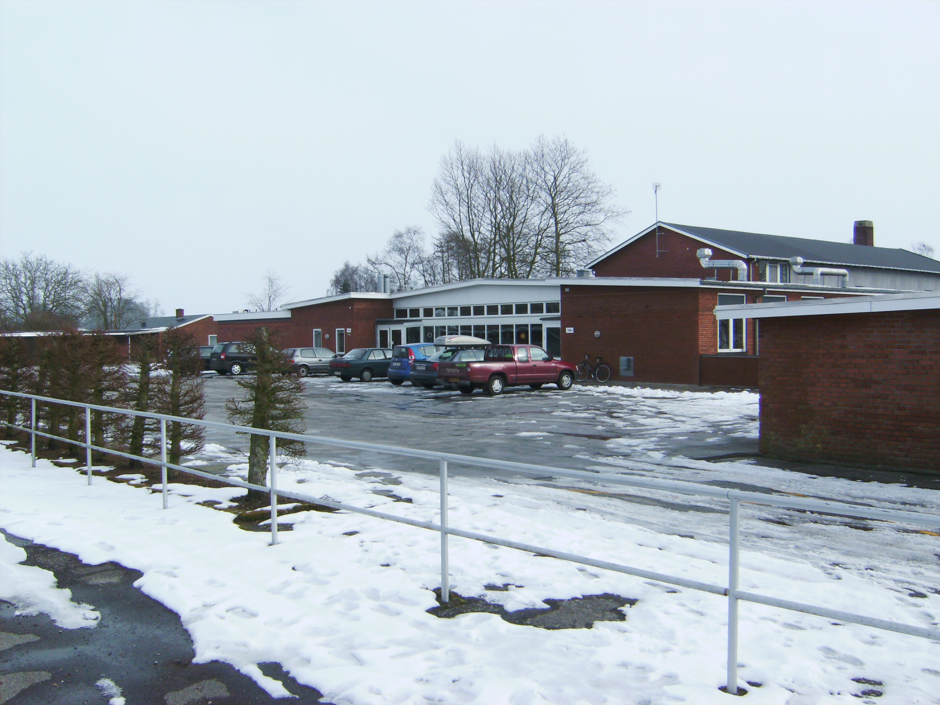 Former School, now leisure center, Kettinge Denmark